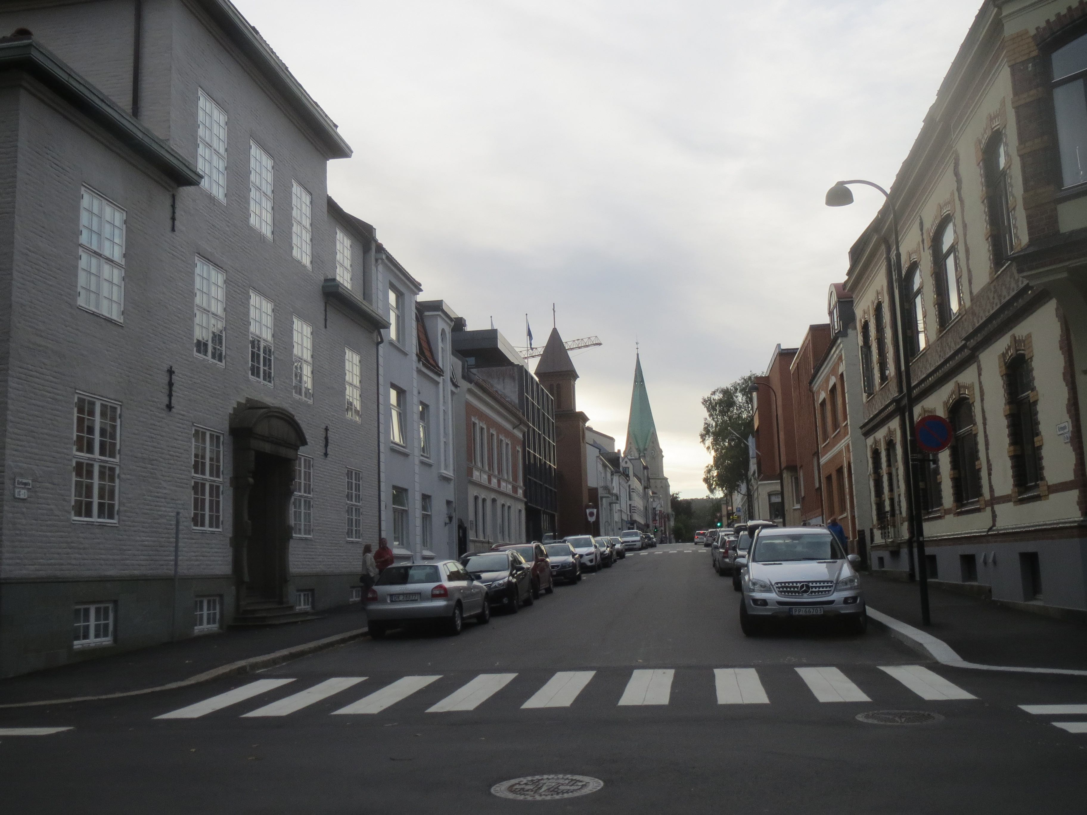 Kirkegata, a street in Kristiansand, Norway